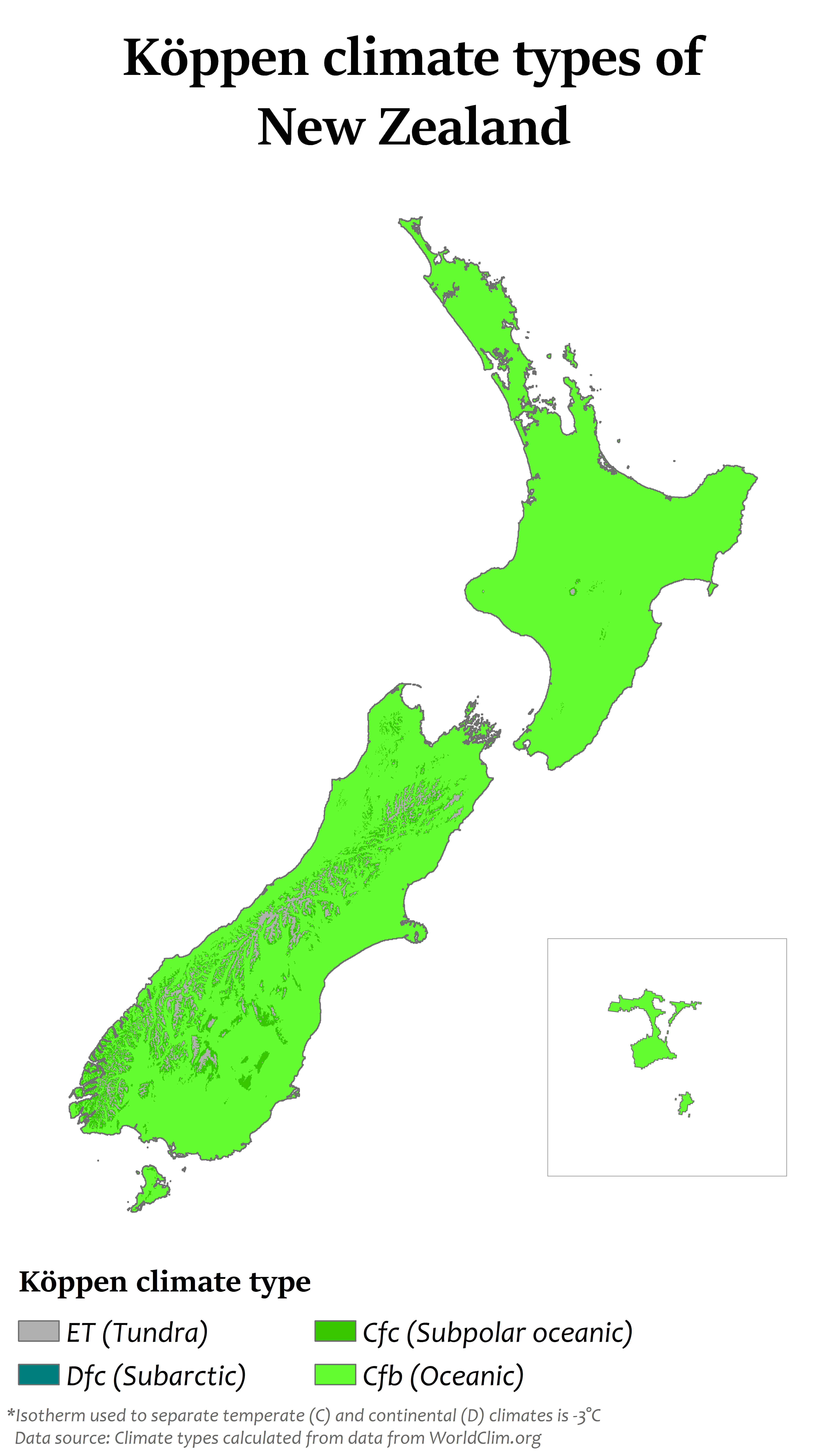 Köppen climate types in New Zealand